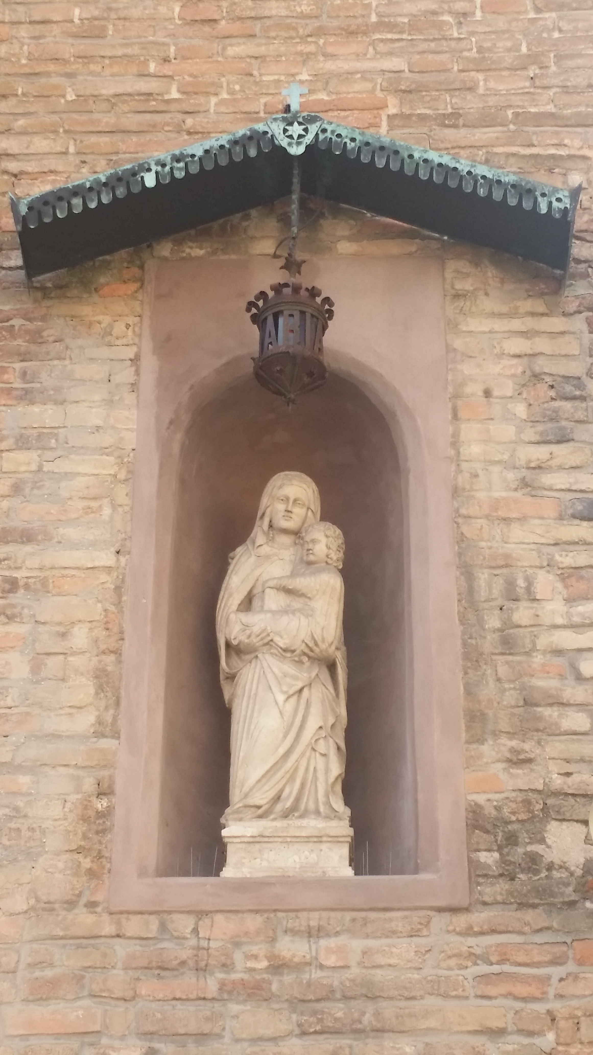 Statue of the Madonna and Child Jesus in her arms, made of white stone in 1510 and attributed to Vincenzo Gottardi, exhibited in a niche inside the cathedral of Cesena (Fc).